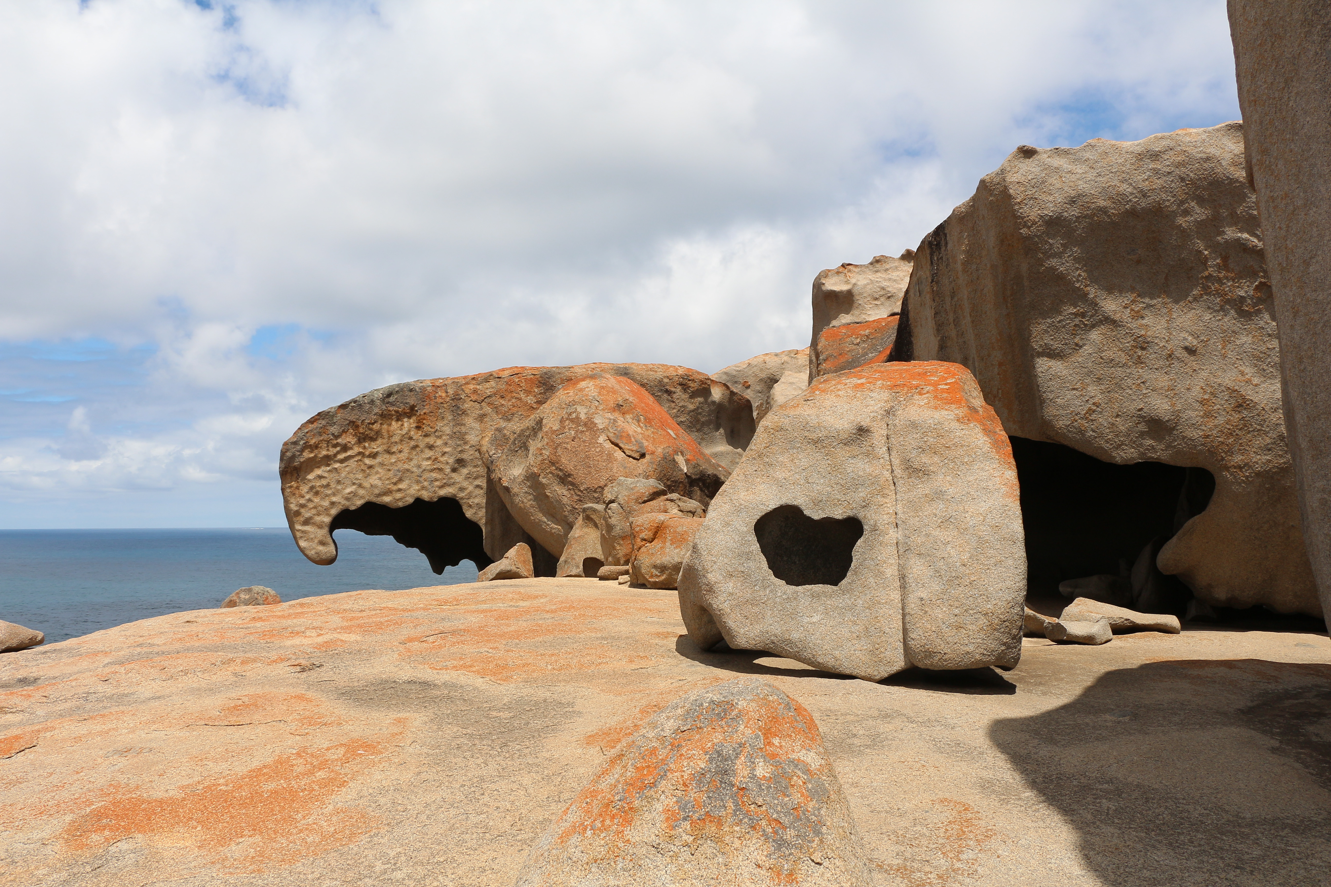 Remarkable Rocks in the Flinders Chase National Park, Kangaroo Island, Australia